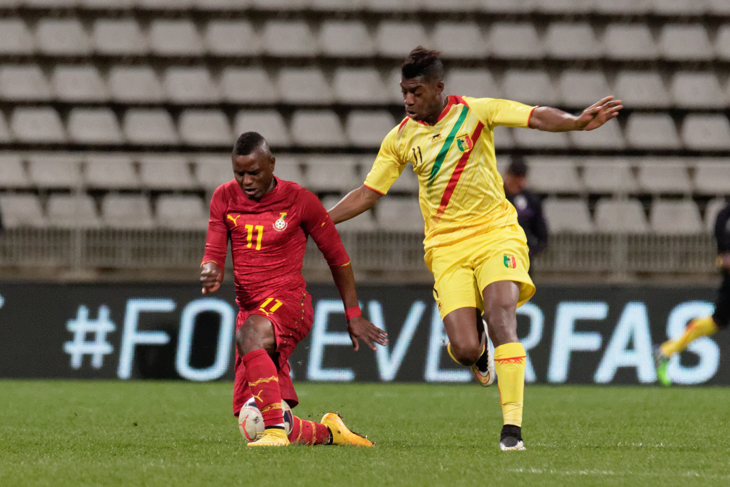 Mali vs Ghana, exhibition game at Paris, 31st March 2015.